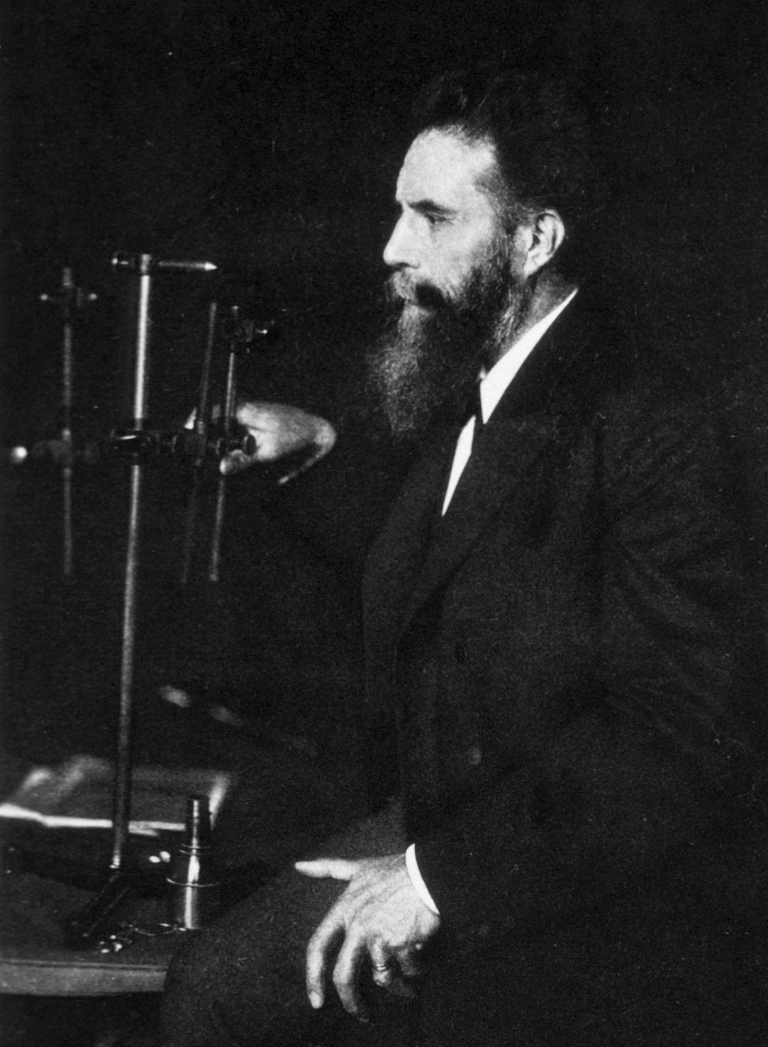 Wilhelm Conrad Röntgen